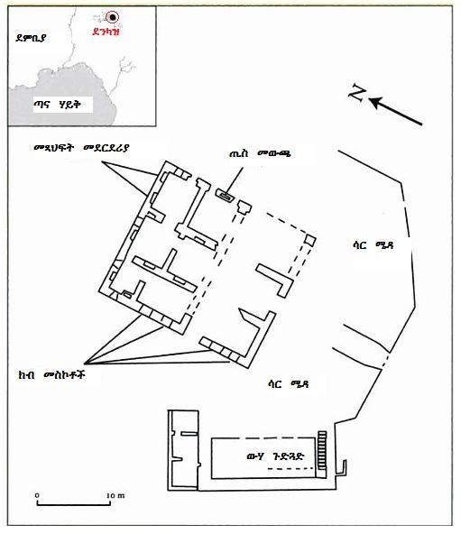 Dankaz palace Suseynos